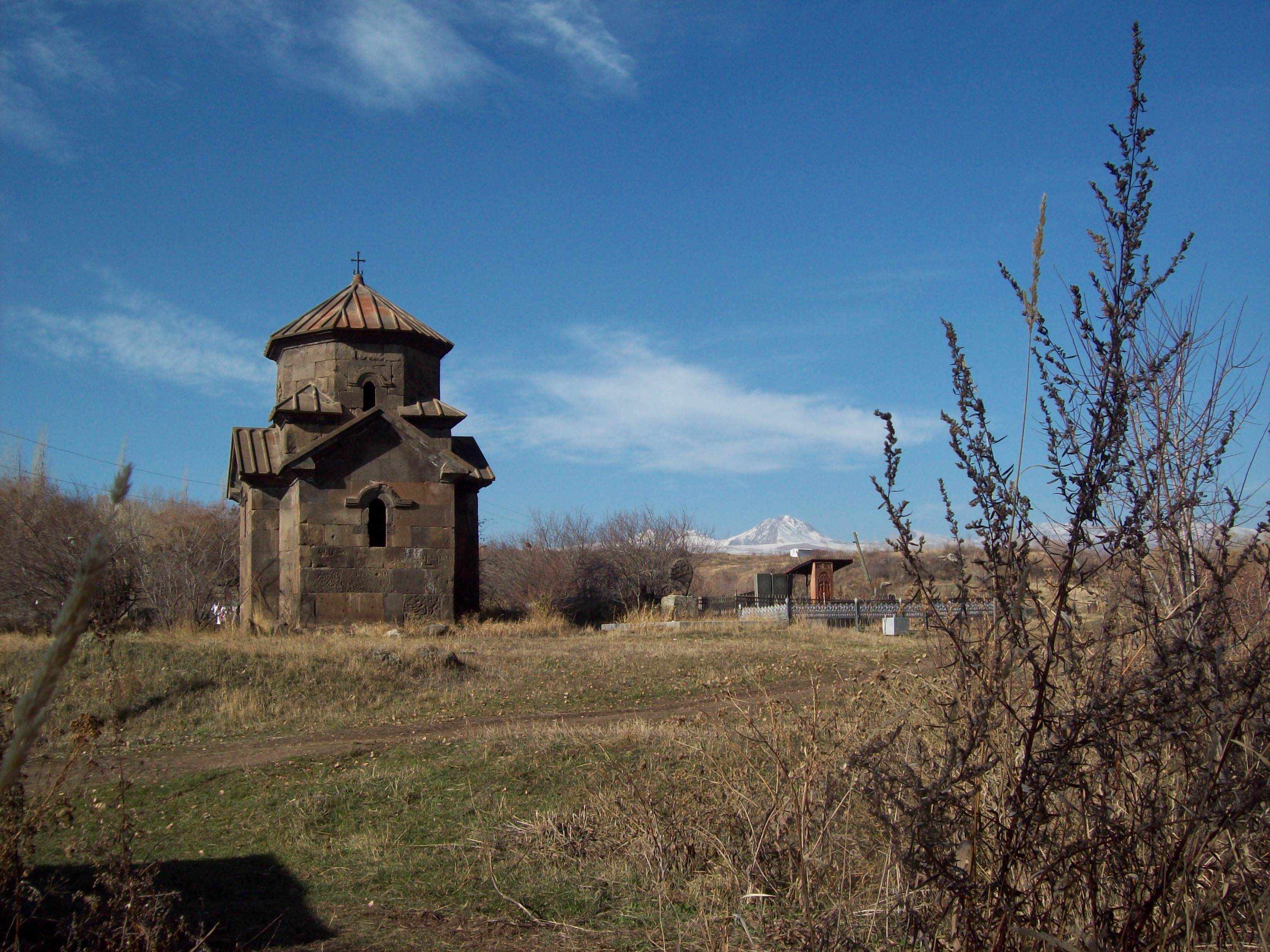 Church Surb Amenaprkich, Artashavan, 7th cent. 20/8